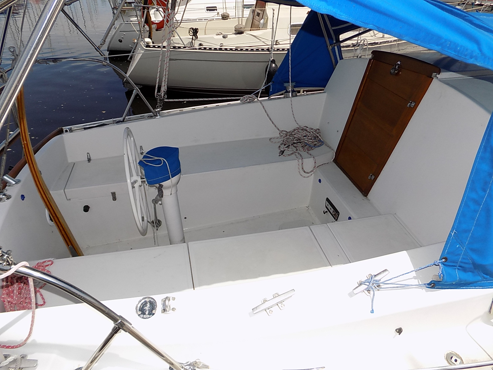 Cockpit detail of a Grampian 30 sailboat named Mistress.